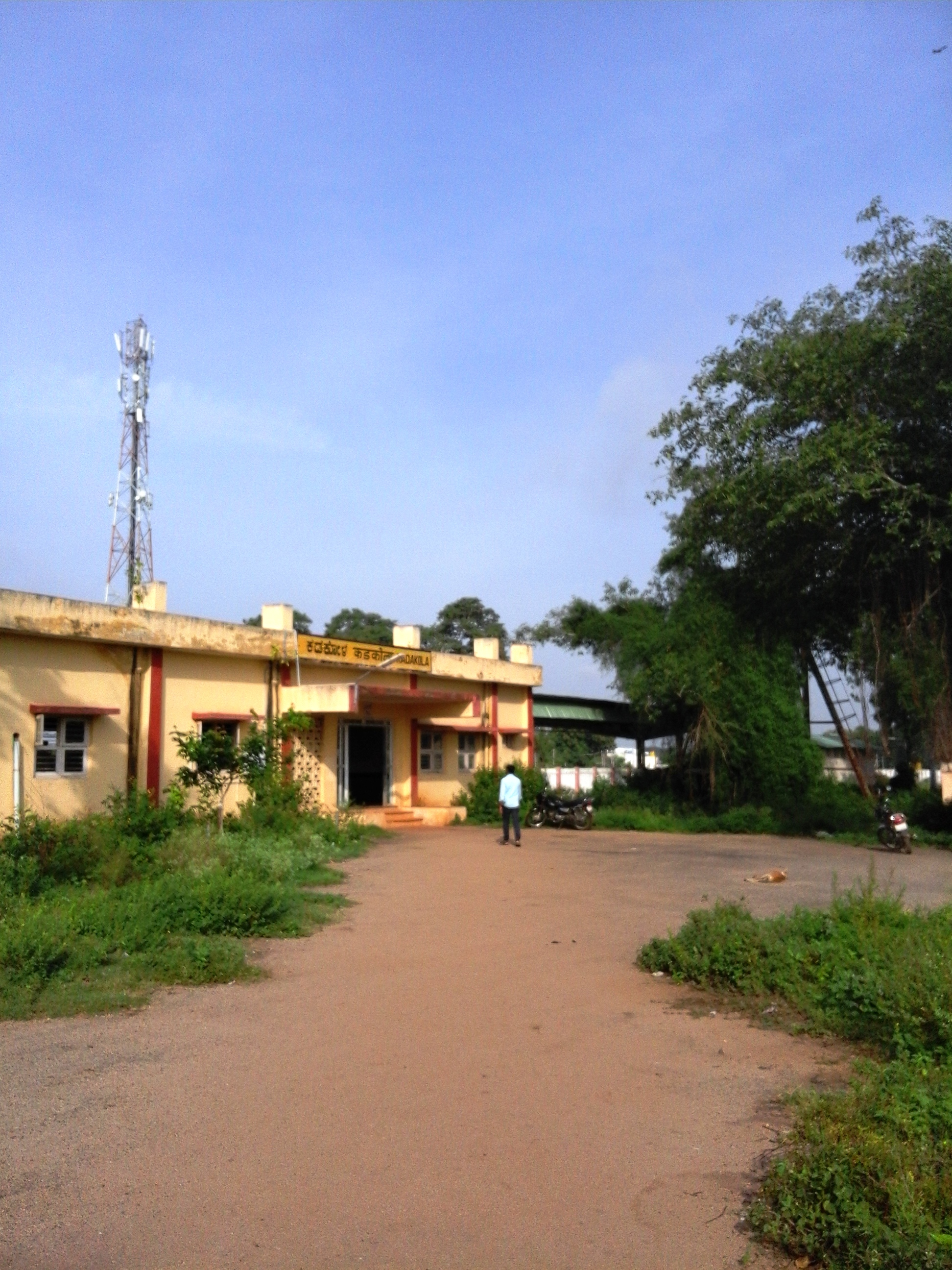 Kadakola village, Mysore district, Karnataka state, India.